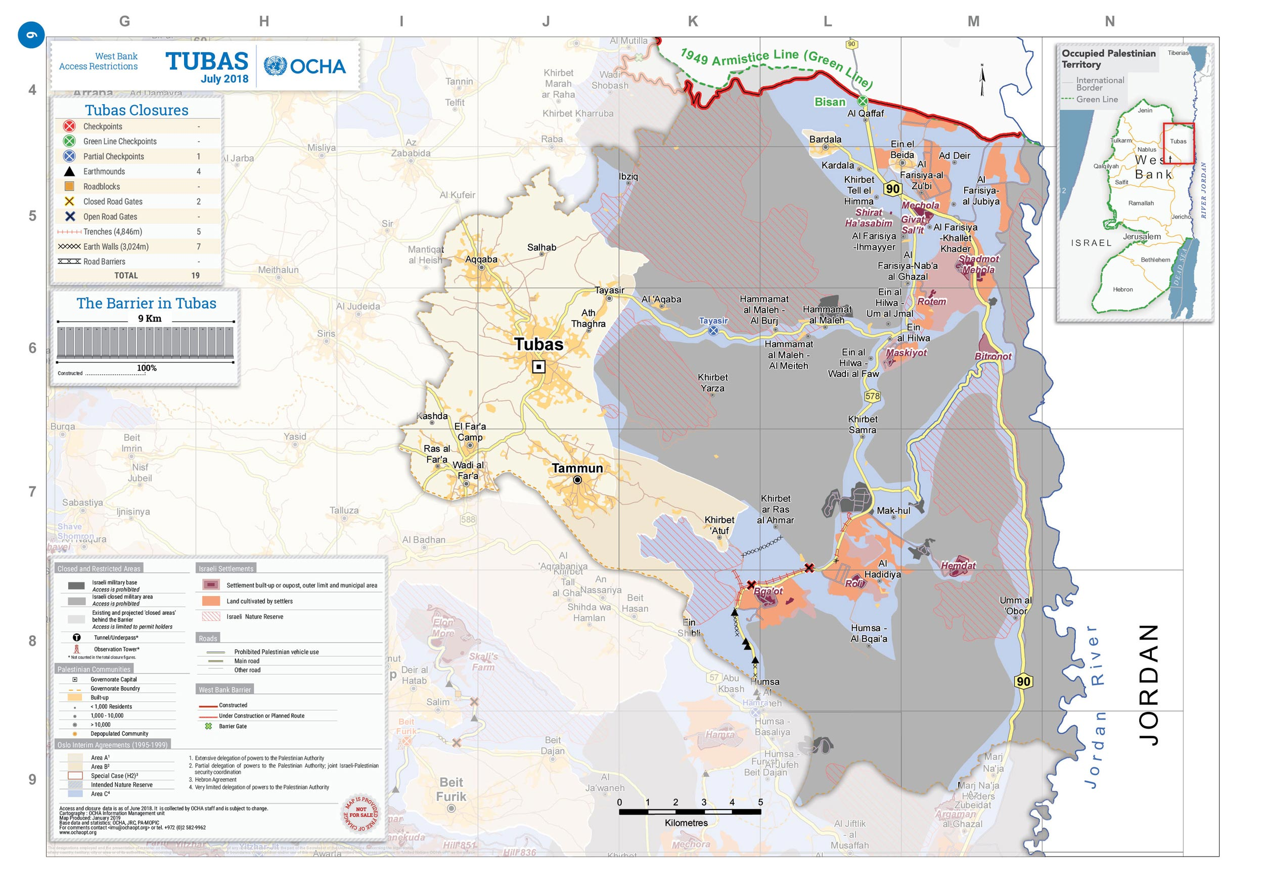 2018 OCHA OpT map